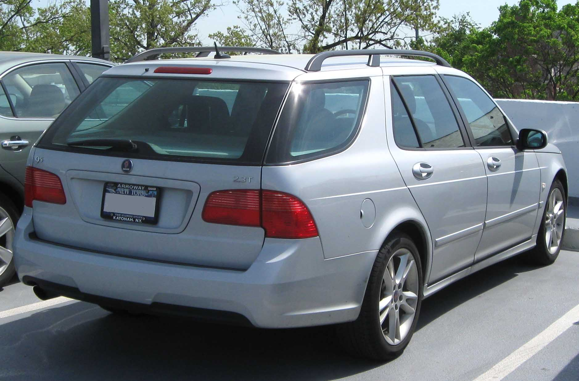 2006-2009 Saab 9-5 photographed in College Park, Maryland, USA.